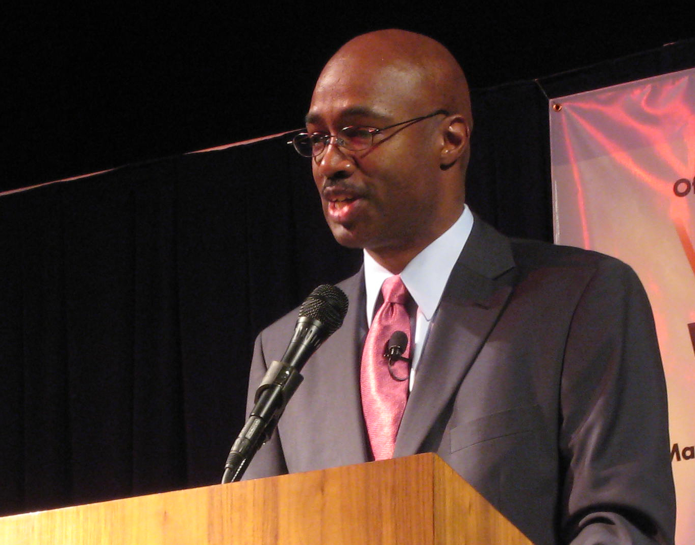 Larry Irving